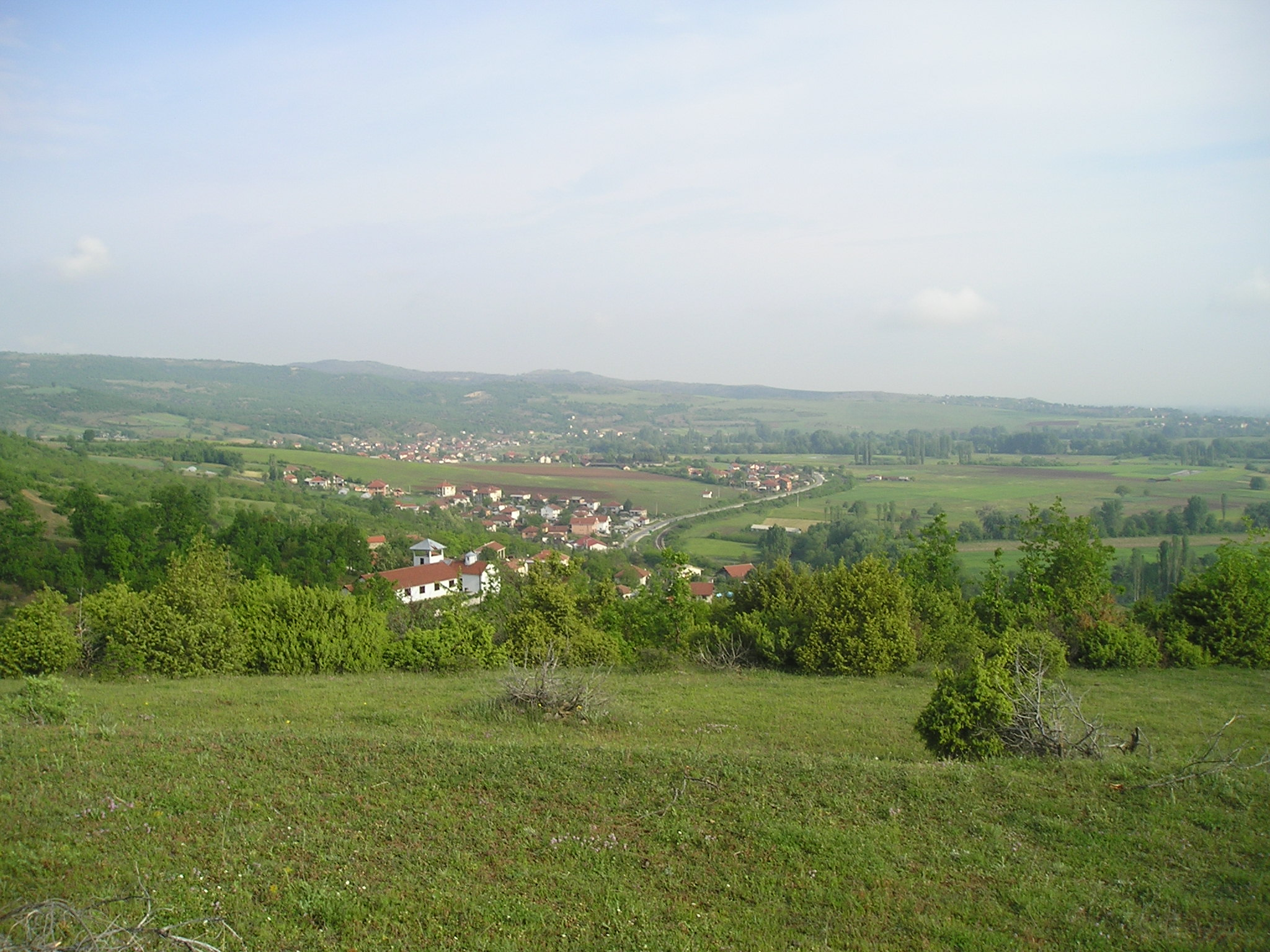 Village of Zelenikovo, Republic of Macedonia